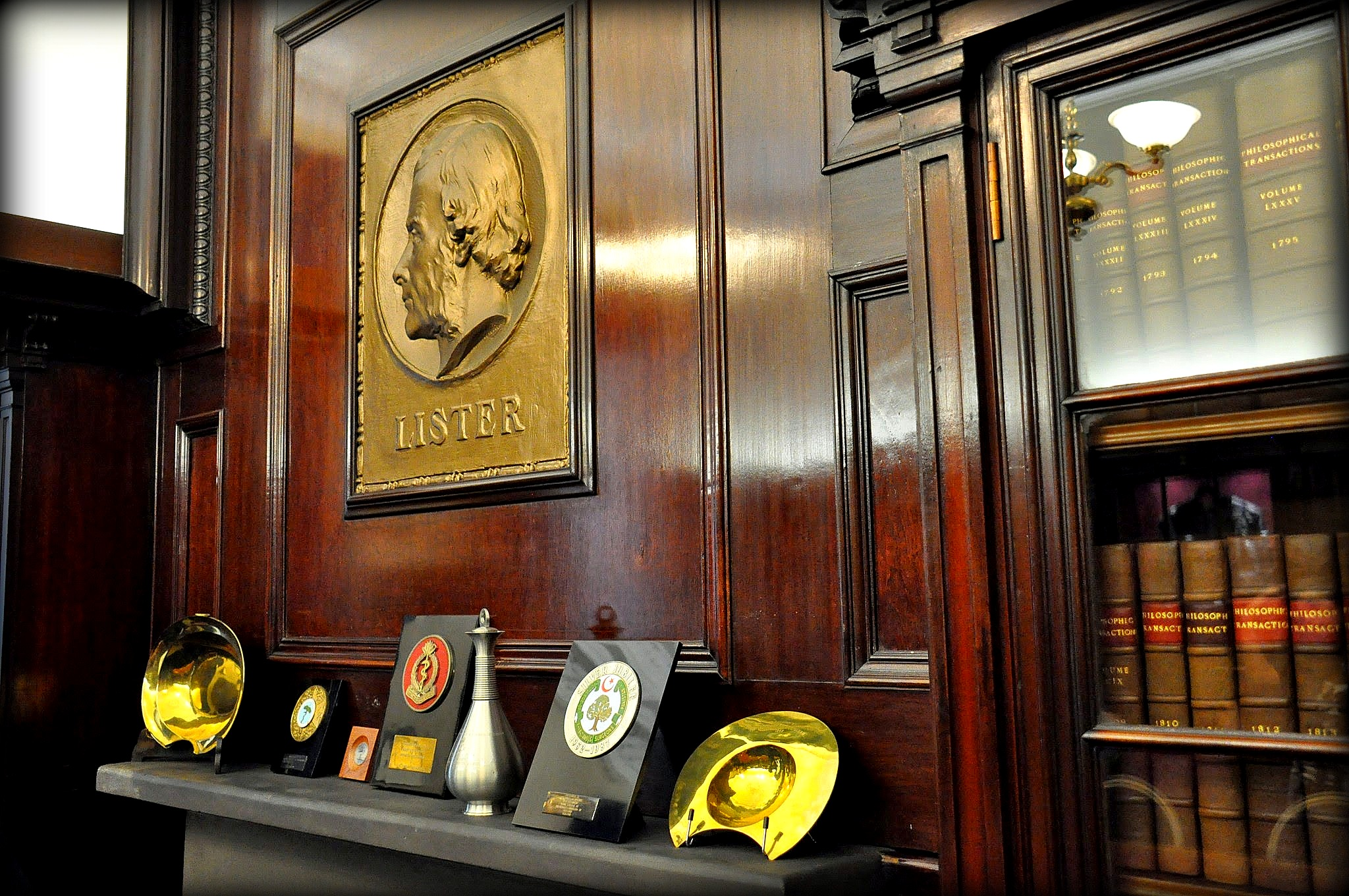 The Lister Room is situated in the oldest wing of the College and is named after the celebrated surgeon and innovator, Joseph Lister (1827-1912).